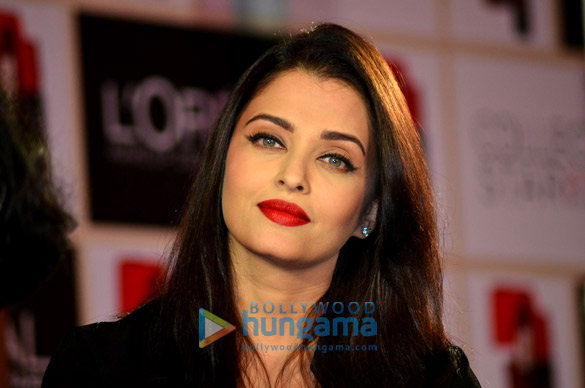 Aishwarya Rai Bachchan launches L'oreal Moist Matte Collection Pure Reds lipsticks